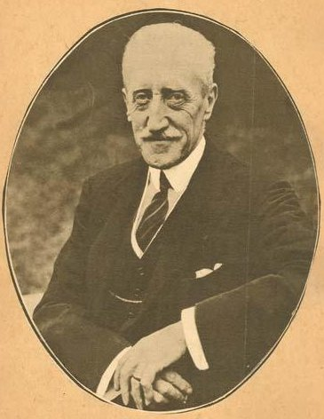 Freeman Freeman-Thomas